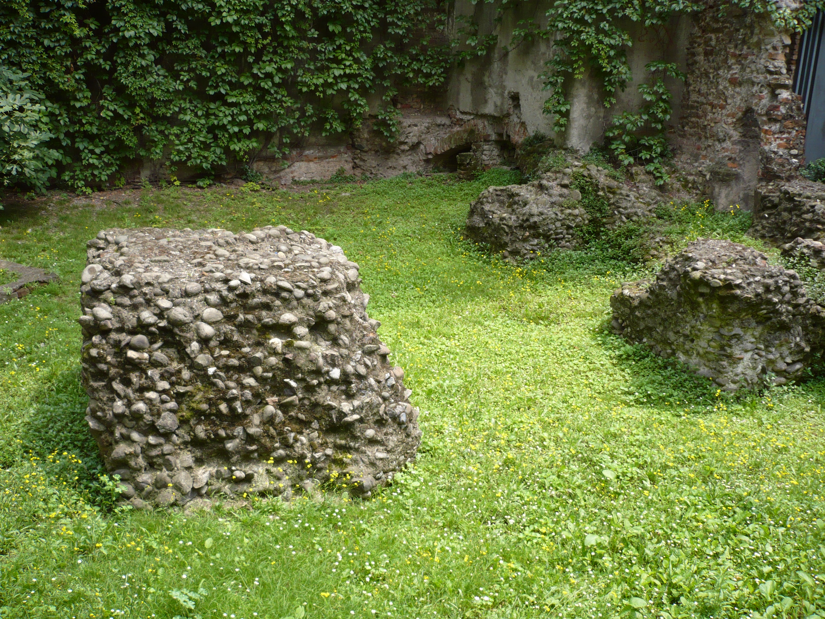 Ruins of the ancient Mediolanum (Milan) Roman circus